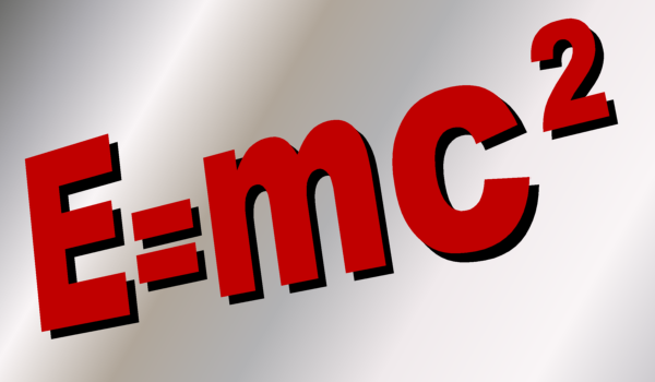 Albert Einstein's theory of relativity formula.